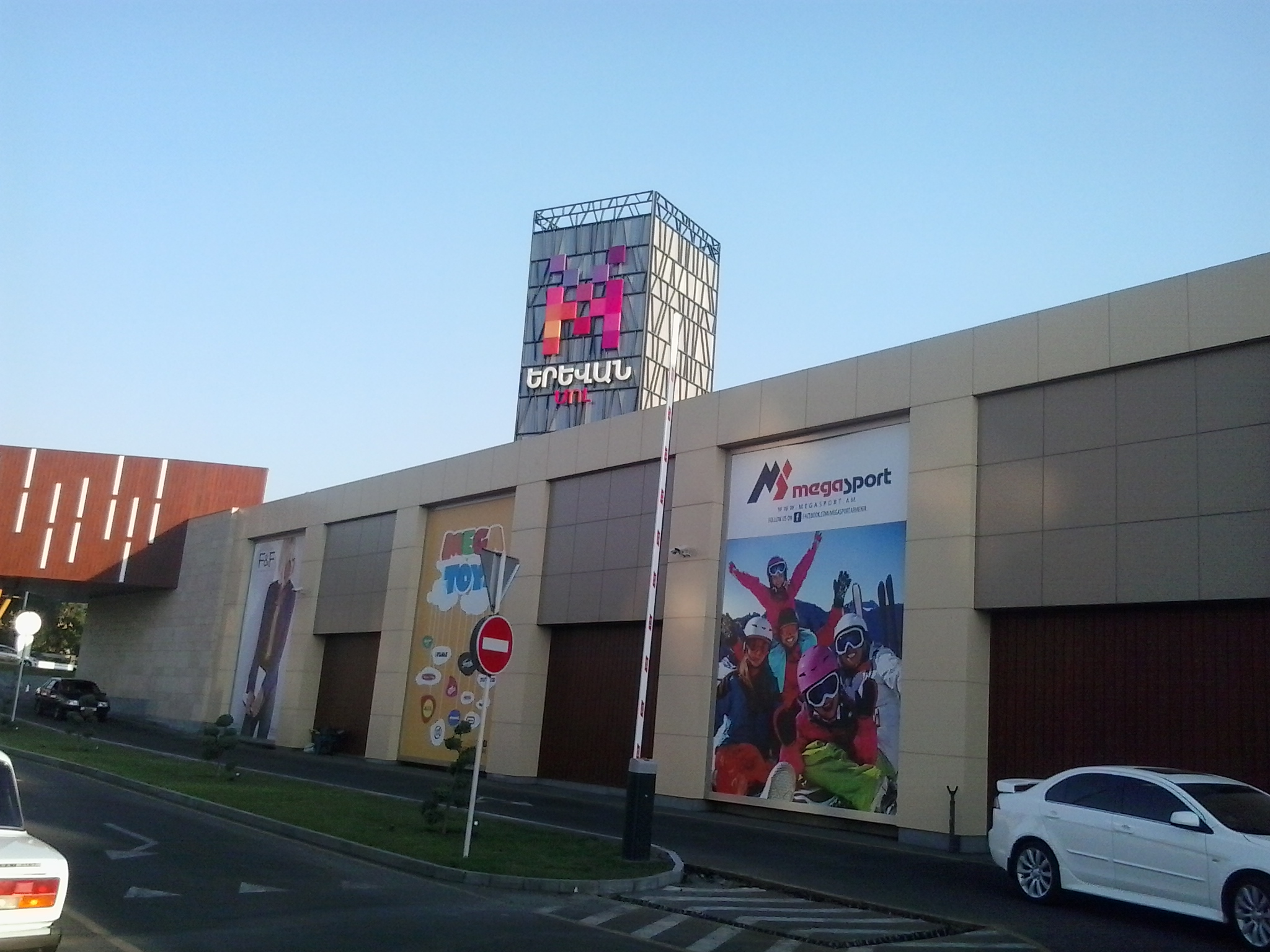 Yerevan Mall